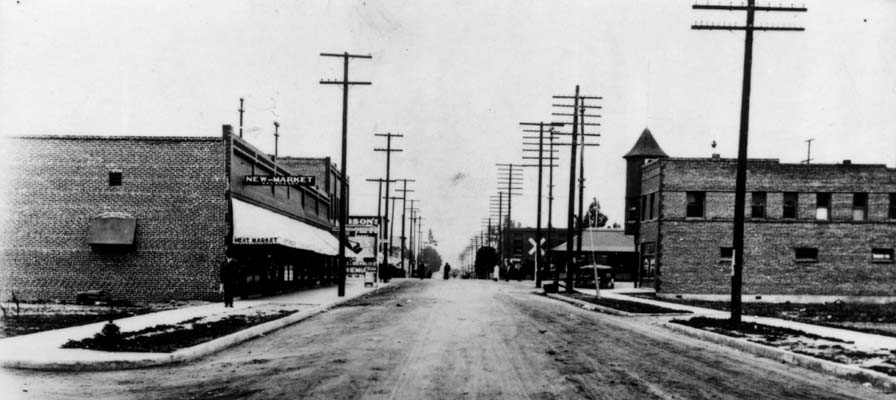 Looking east on Main Street, Watts Looking east on Main Street (later 103rd Street) towards the Pacific Electric Railway depot, right of center, and various businesses. Photograph dated July, 1912.